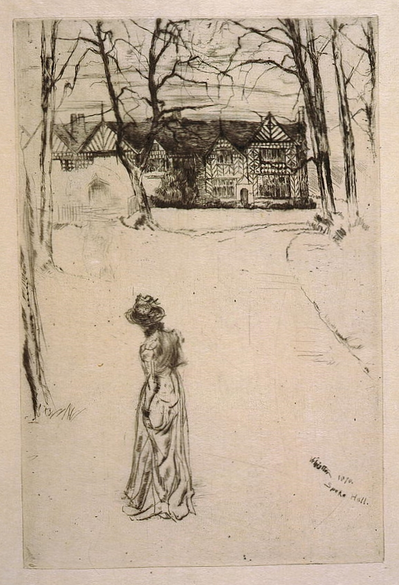 Speke Hall by James McNeill Whistler (1834-1903). Etching and drypoint.